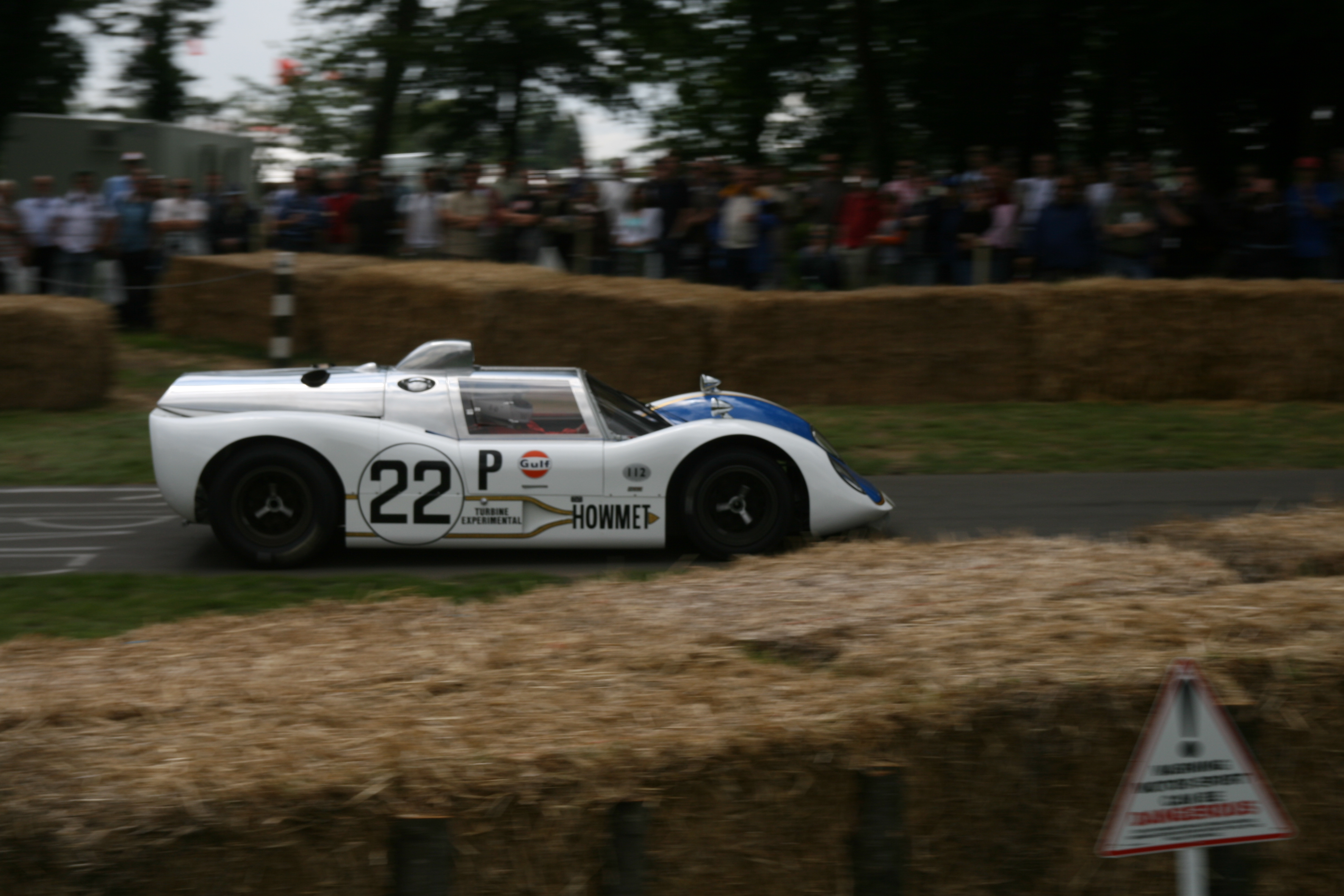 A Howmet TX at the Goodwood Festival of Speed